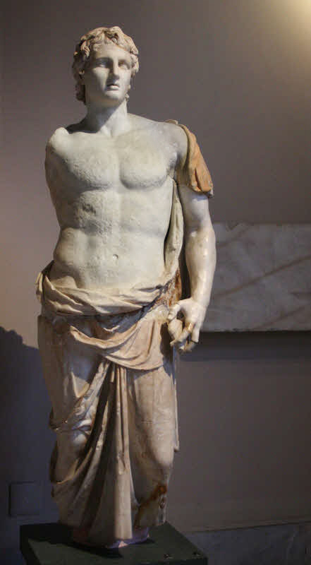 3rd century BC statue of Alexander the Great, signed "Menas". Istanbul Archaeology Museum. Minor photoshop work to remove or reduce blemishes, a crack, etc.